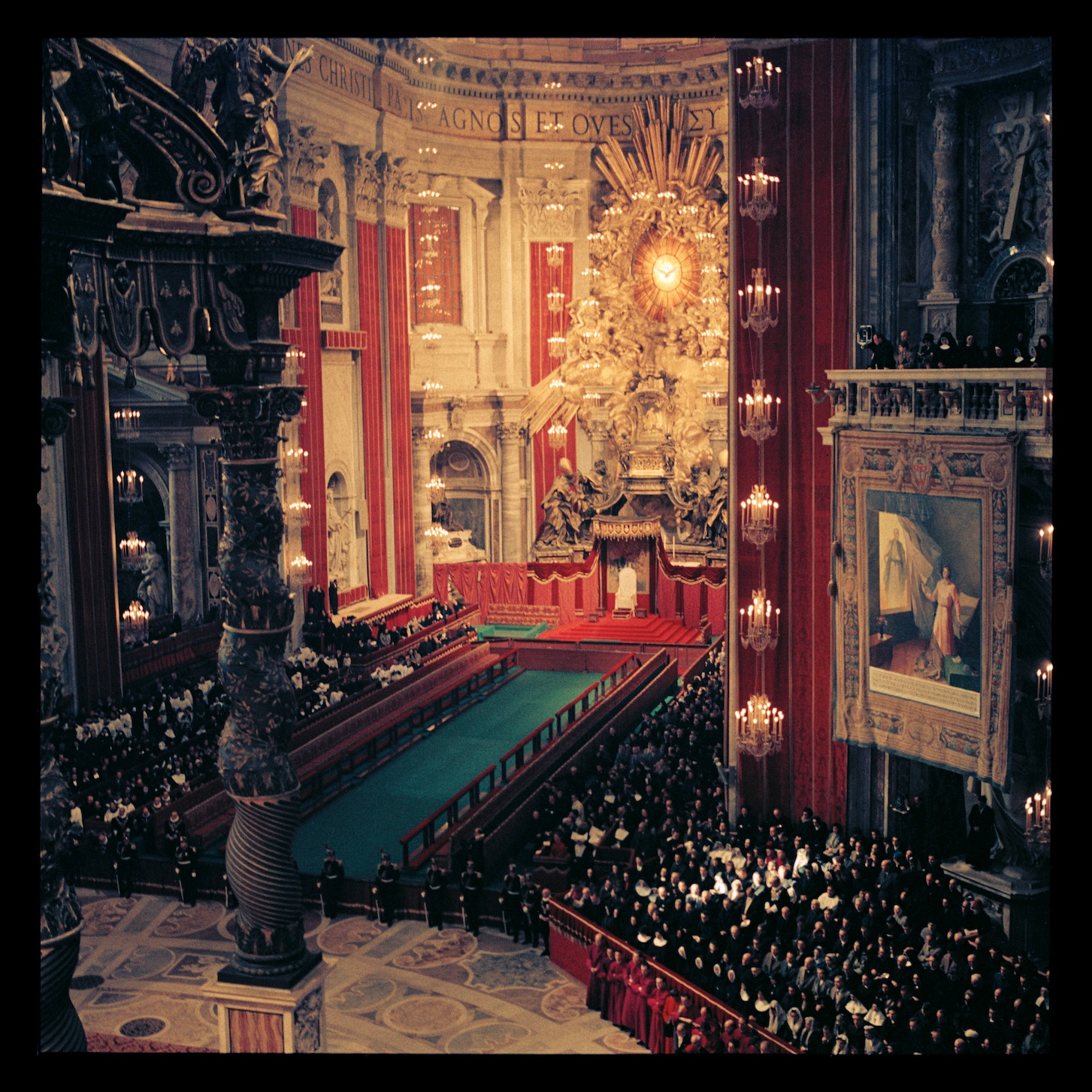 Second Vatican Council